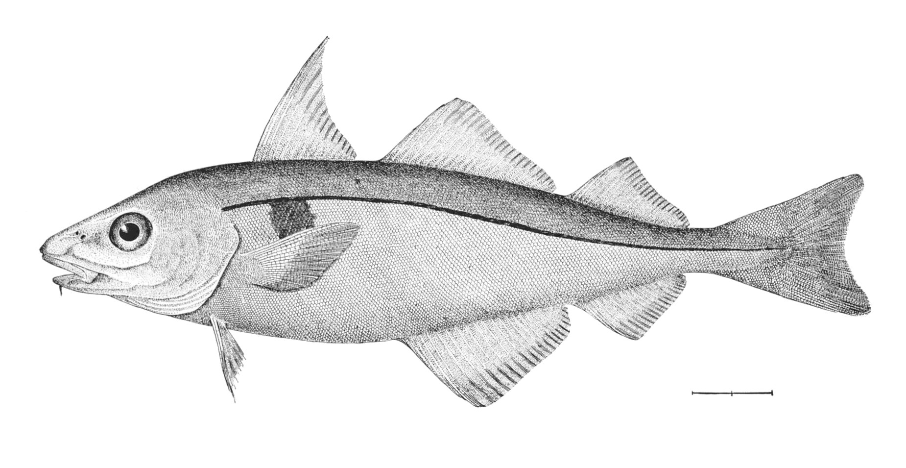 Haddock, Melanogrammus aeglefinus. The speciemen #10440, U.S. National Museum, collected at Eastport, Me., by U.S. Fish Commission in 1872.